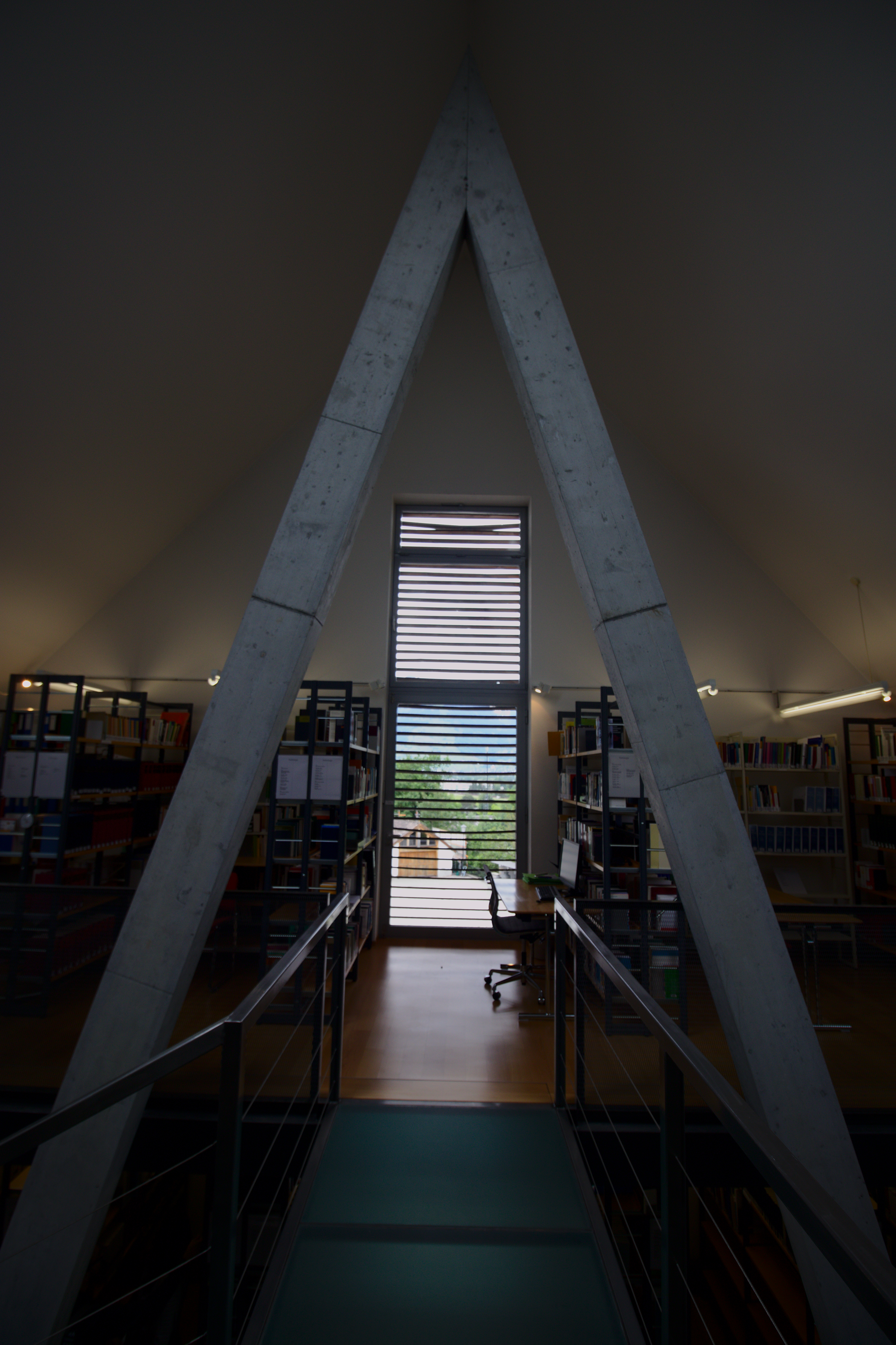 Liechtenstein Institute in Bendern, FL